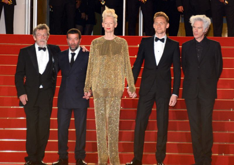 Cast and director of "Only lovers left alive" at the Cannes Film Festival. Left to right : John Hurt, Slimane Dazi, Tilda Swinton, Tom Hiddleston and Jim Jarmusch.